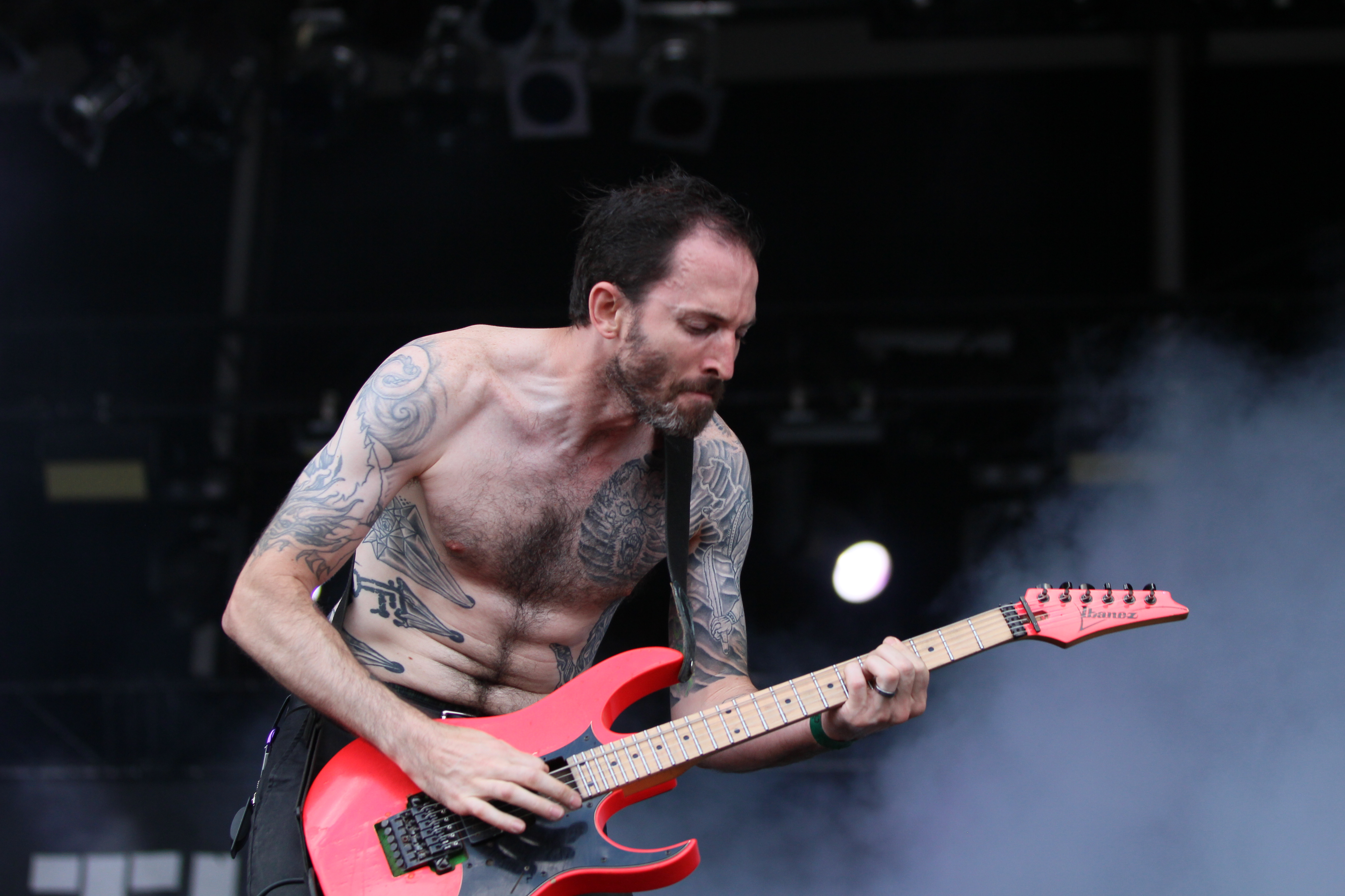 The American mathcore band The Dillinger Escape Plan at the With Full Force festival 2014 in Roitzschjora/Germany